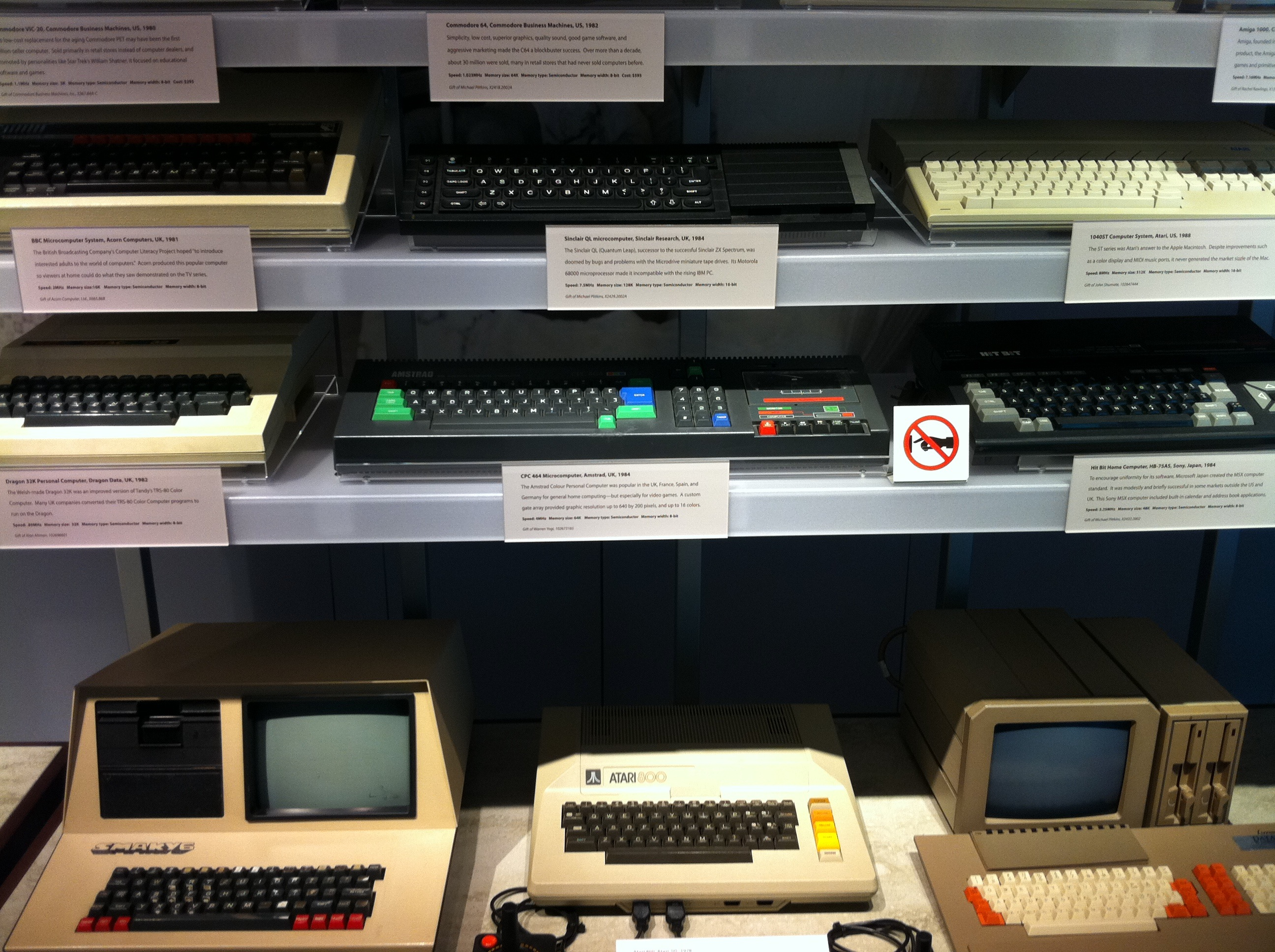 Early personal computers on display at the Computer History Museum